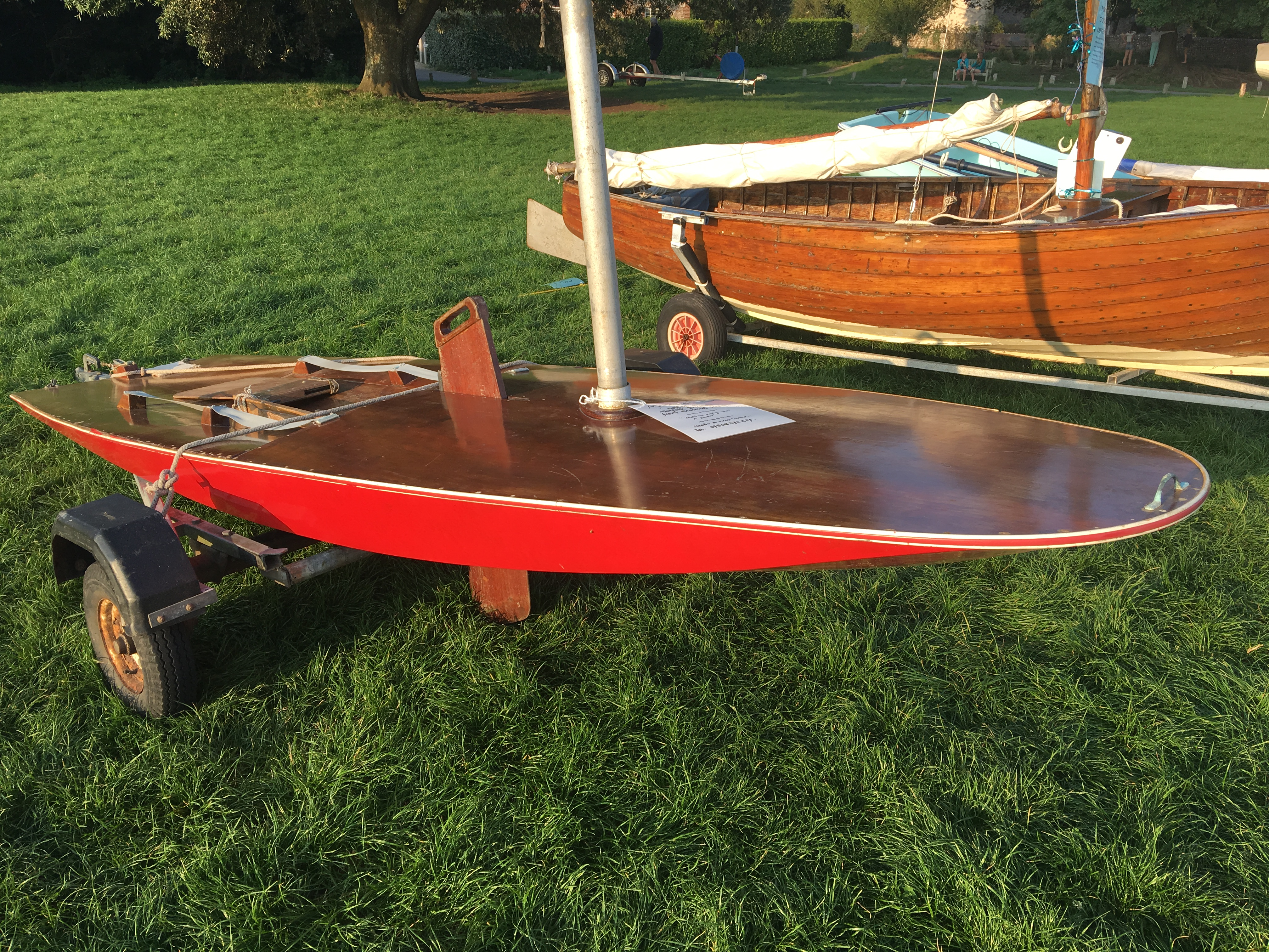 Minisail No 10, a Monaco Mk.1 from 1960, built by Bossoms Boatyard in Oxford.